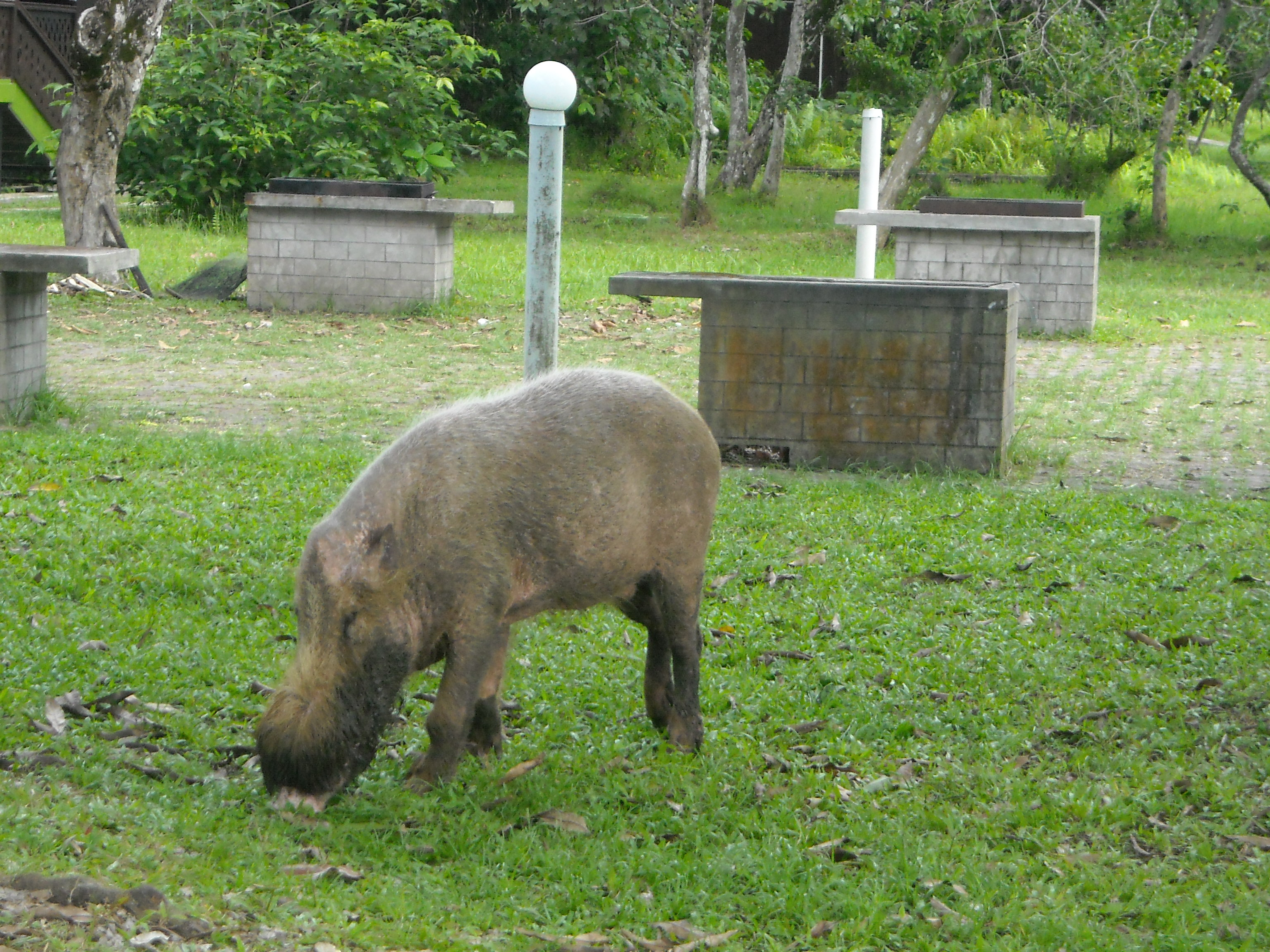 Bearded pig at Bako National Park,Sarawak,Malaysia.